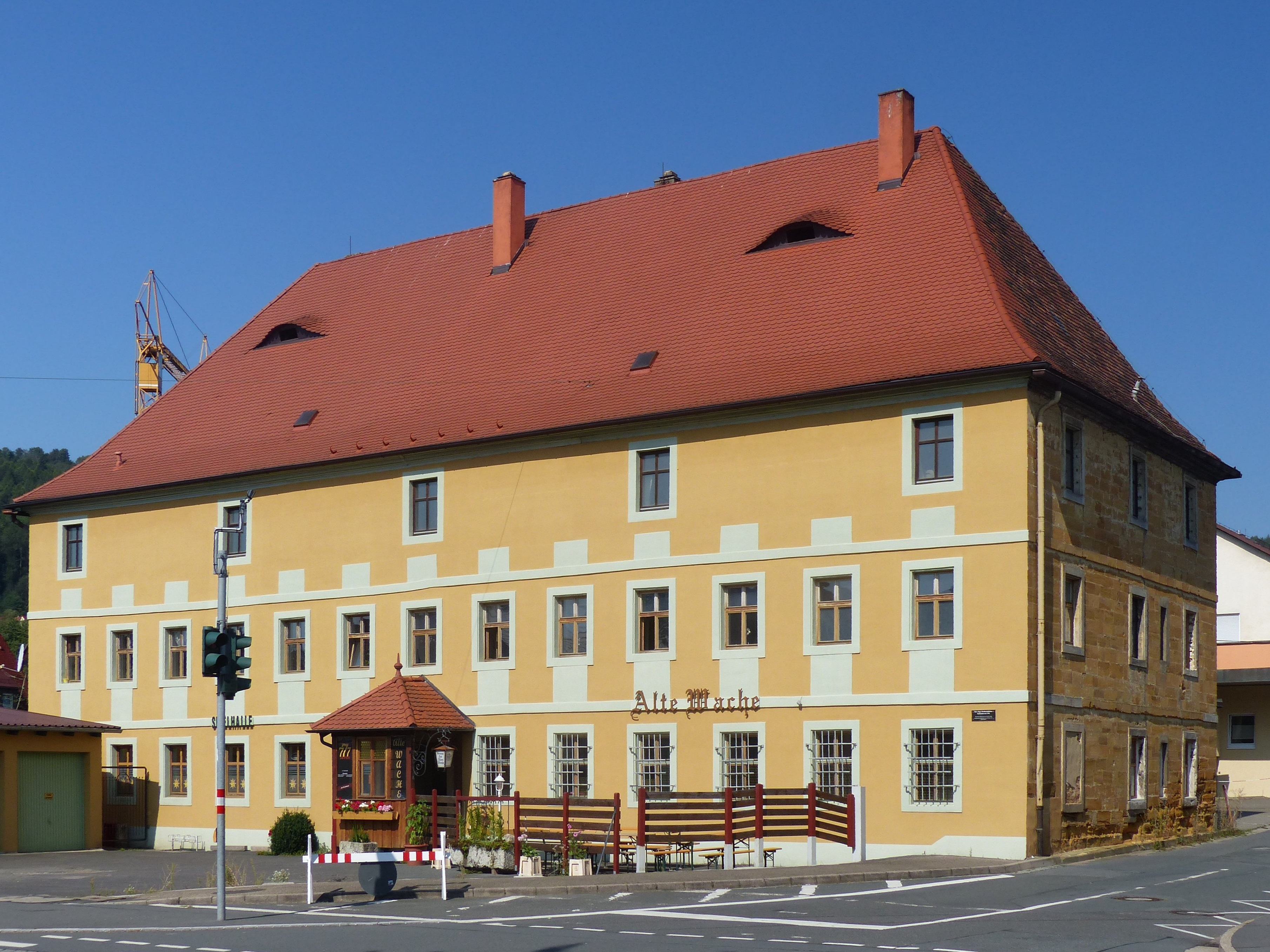 The former Amtshaus (official residence) of the Amt Ebermannstadt, an administrative body of the Prince-Bishopric of Bamberg.